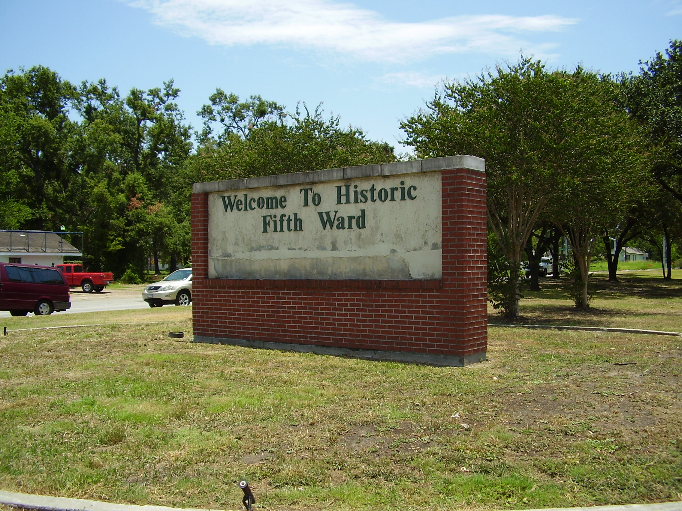 Sign marking the Fifth Ward - "Welcome to Historic Fifth Ward" (sic)